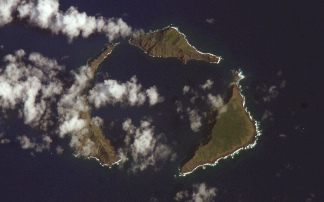 NASA Astronaut Image of Maug Islands (Northern Mariana Islands) in the Pacific Ocean cropped